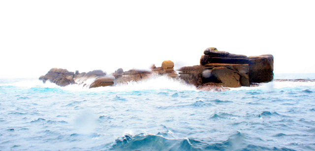 Little Crebawethan On a choppy and rainy day.